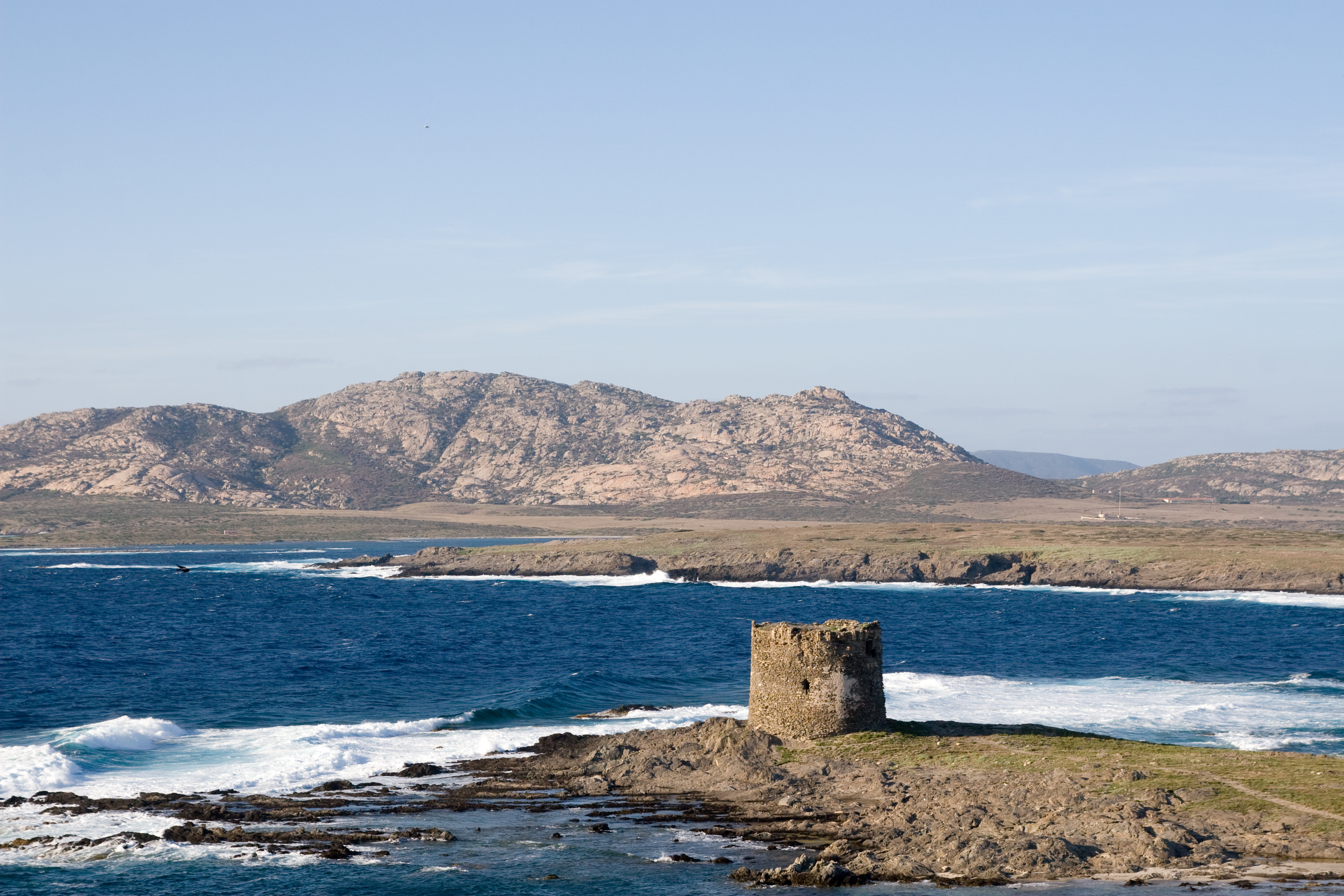 the island of Asinara from Falcon Cape (stintino) Sardinia/Sardegna